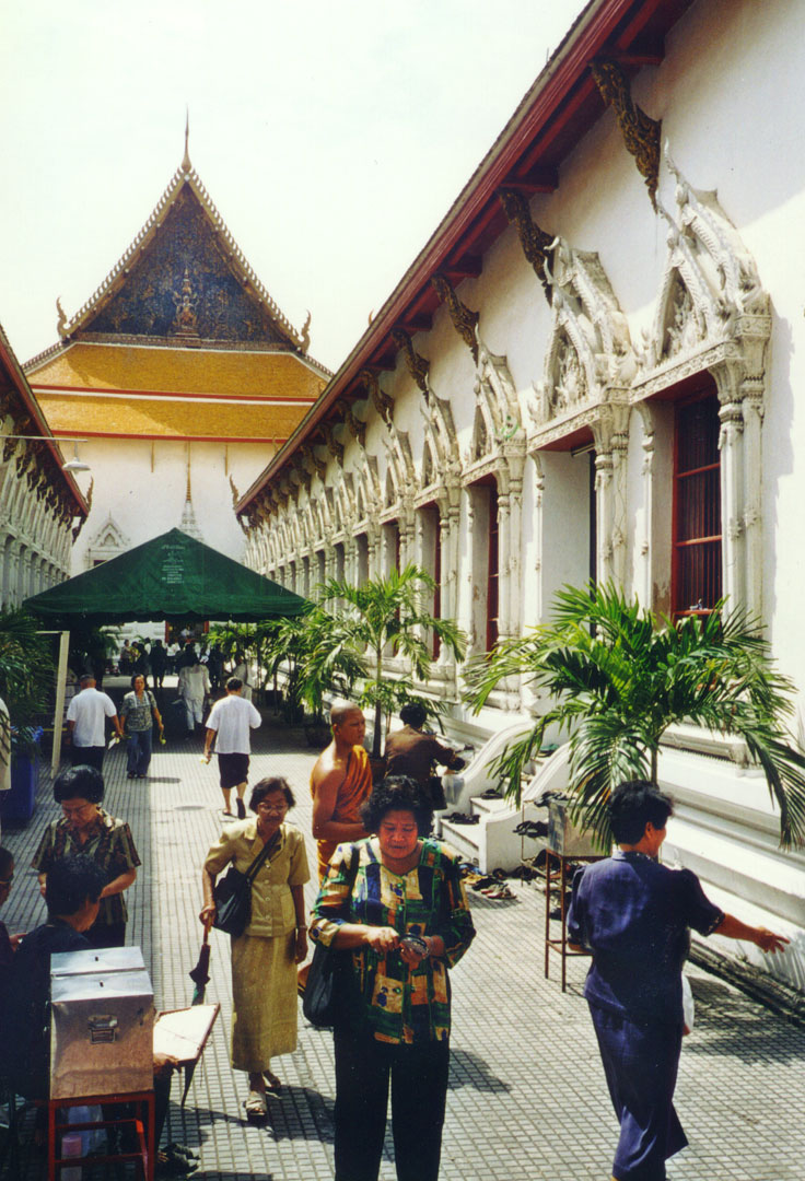 Phra Ubosot (right) and Phra Mondop (background) within Wat Mahathat, Bangkok, Thailand.